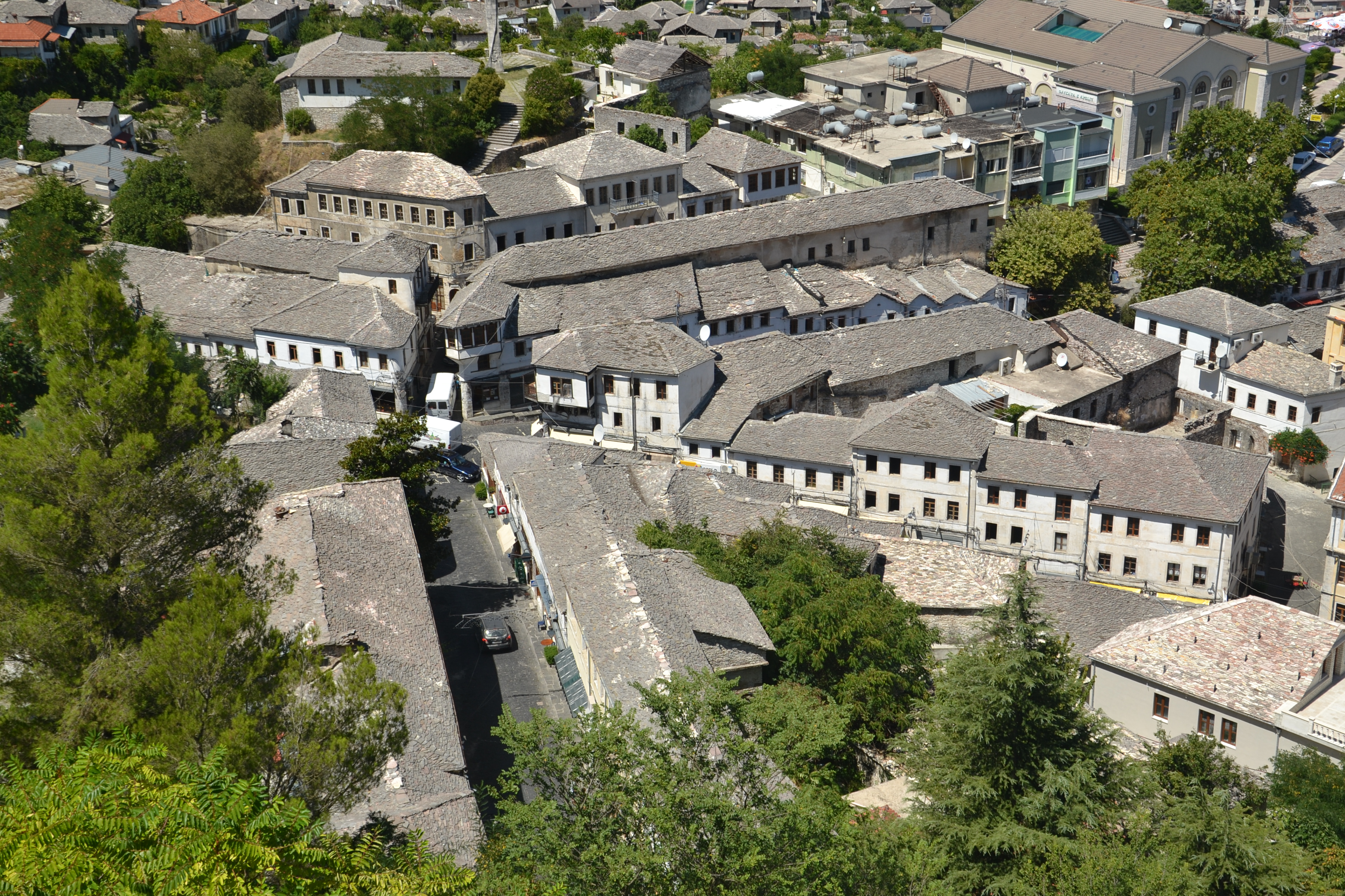 Gjirokastёr, Albania